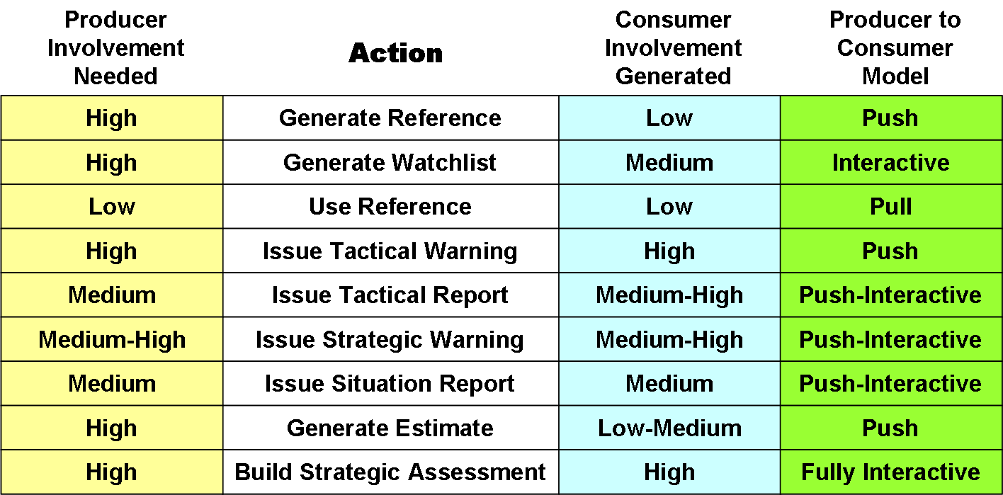 Involvement and Flow in Intelligence Actions